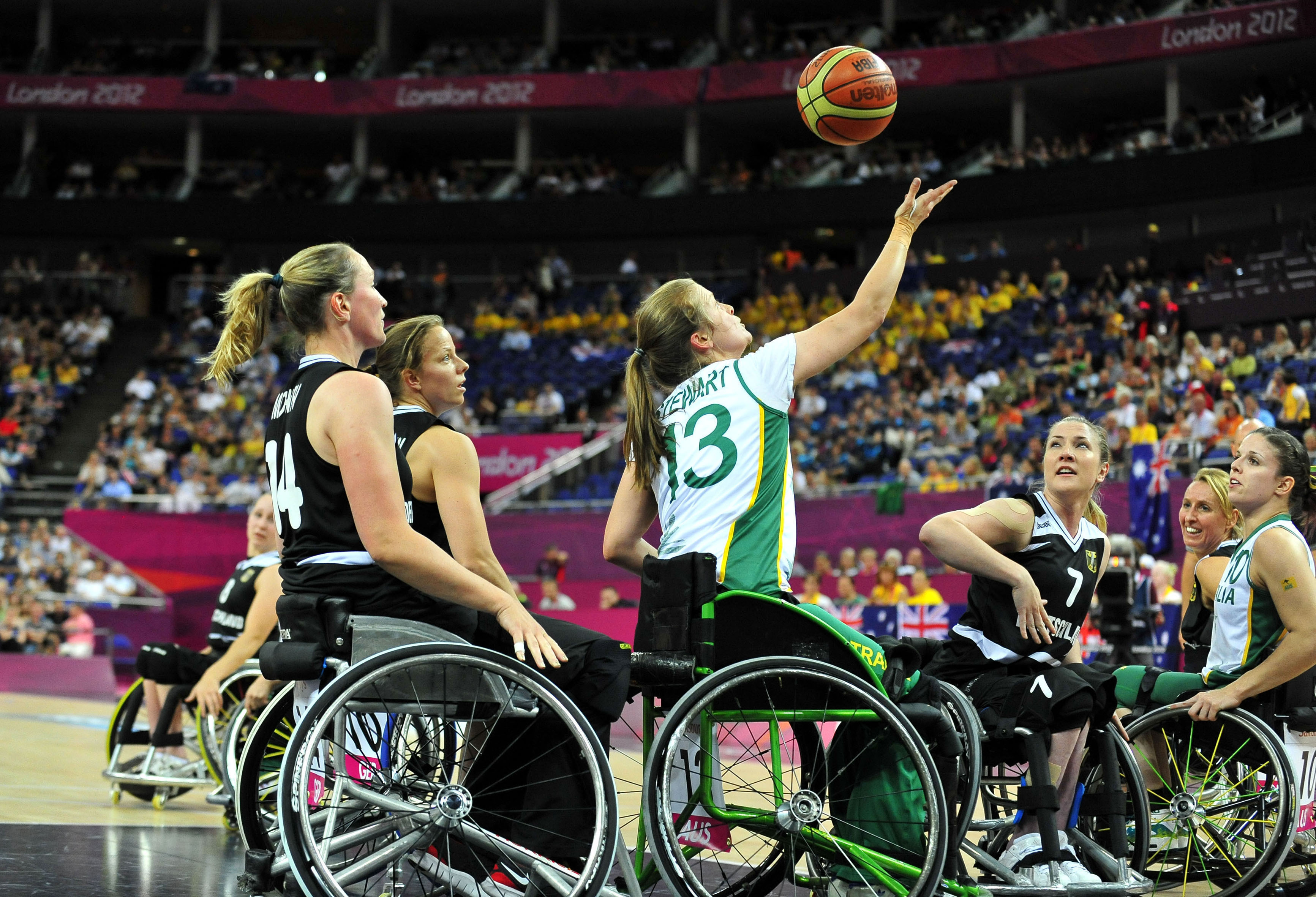 Photograph of Australian Paralympic team member Sarah Stewart at the 2012 Summer Paralympic Games in London Players are (left to right): Annika Zeyen, Marina Mohnen, Gesche Schünemann, Sarah Stewart, Edina Müller, Maria Kühn and Clare Nott